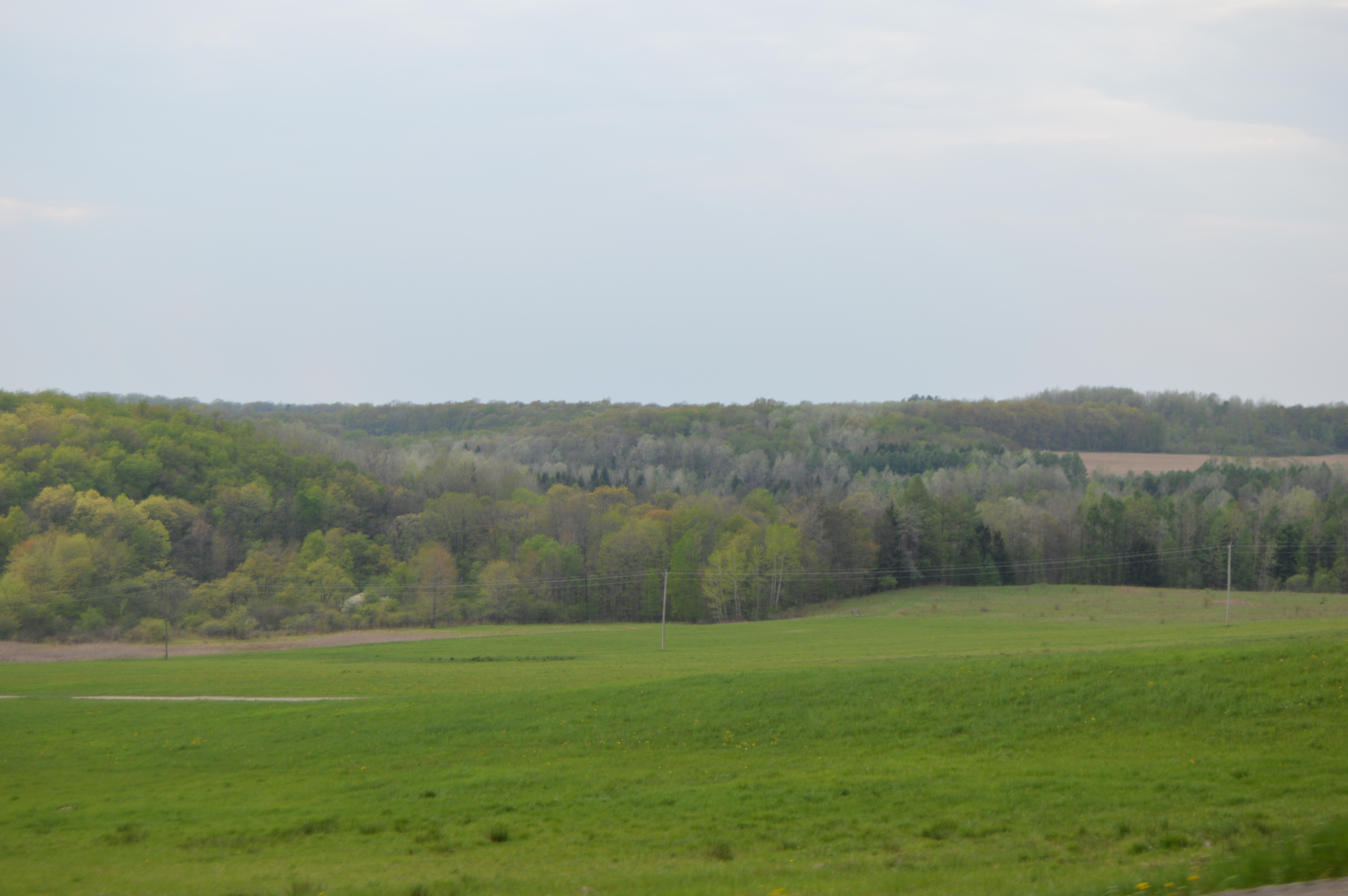 Fields and woodlands off the western side of Pennsylvania Route 38 in southern Cherry Valley, Pennsylvania, United States.